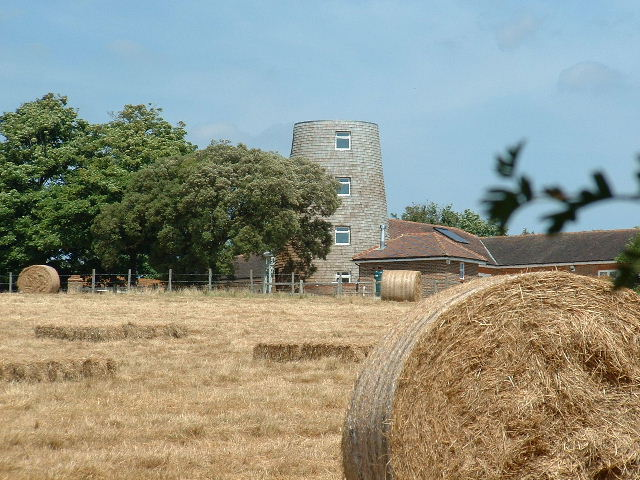 Photograph of Angmering windmill